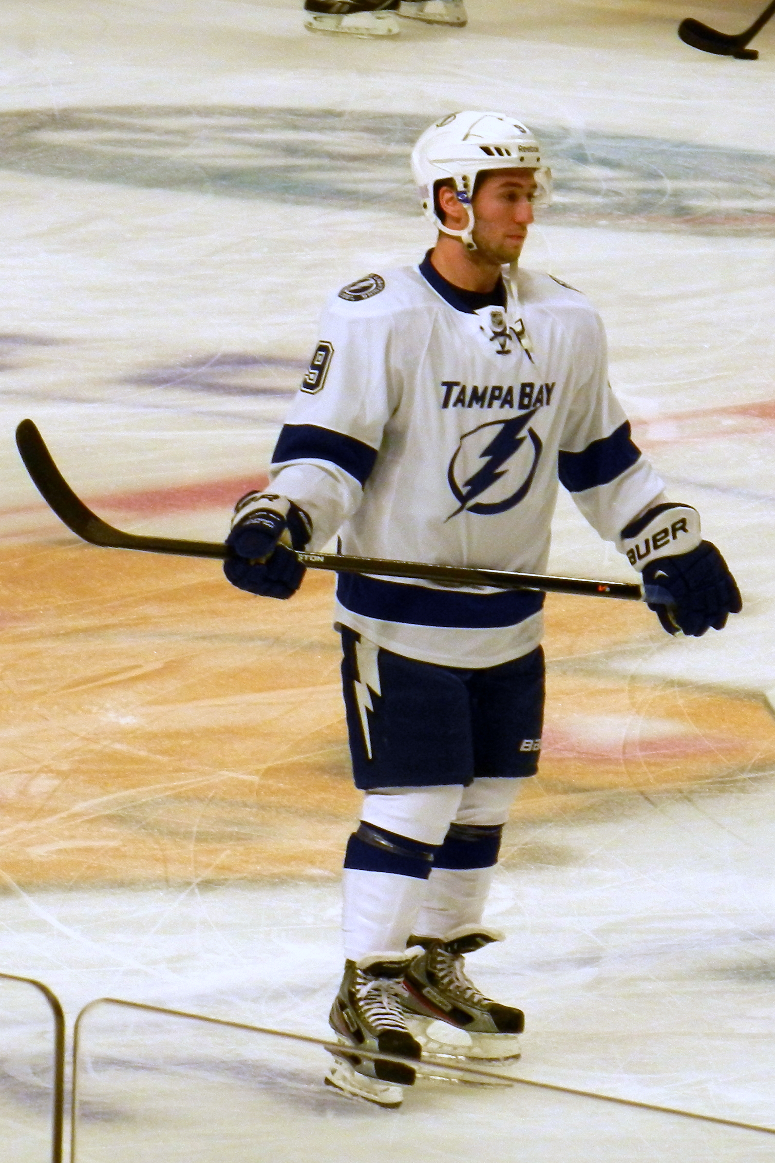 Tyler Johnson with the Tampa Bay Lightning during warm-up before a gamve vs. the Blackhawks at the United Center in Chicago